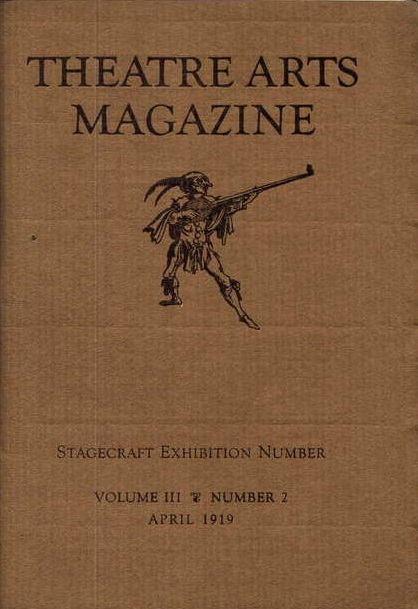 Cover of the April 1919 issue of Theatre Arts Magazine (volume 3, number 2)